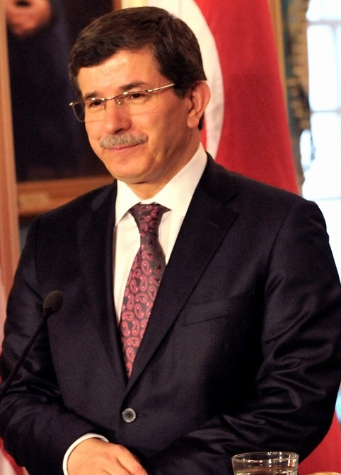 Cropped version photo of Ahmet Davutoğlu, June 5, 2009. State Department photo by Michael Gross